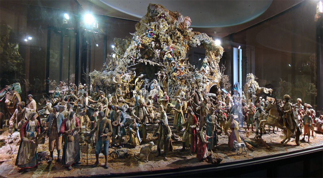 Royal Palace, Caserta, Campania, Italy. The Nativity.